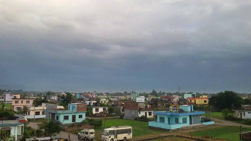 the view of sunwal